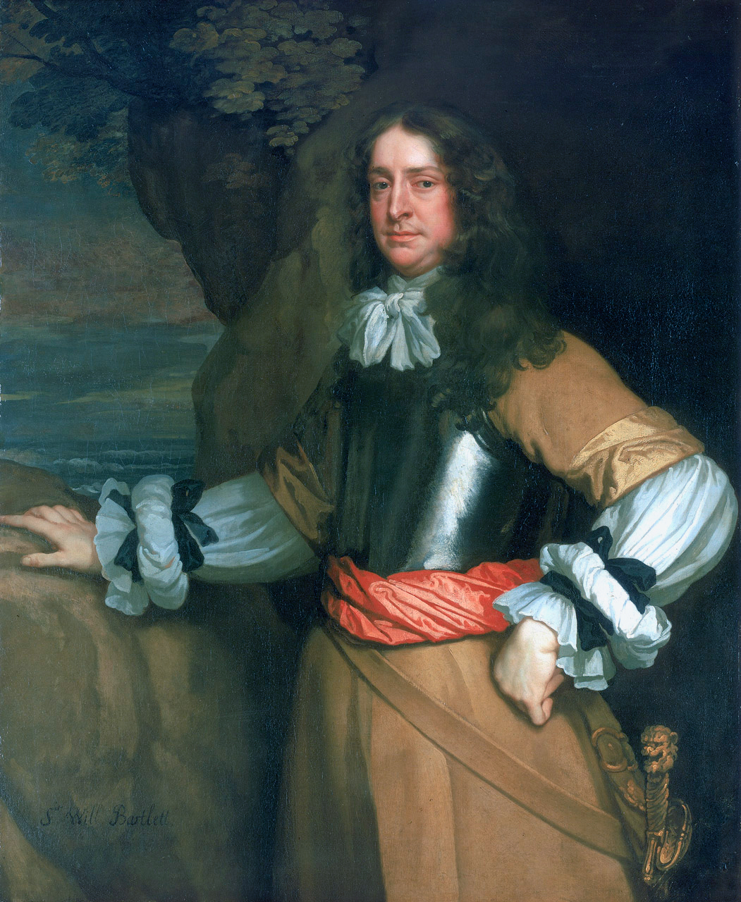 Flagmen of Lowestoft: Vice-Admiral Sir William Berkeley, 1639-66